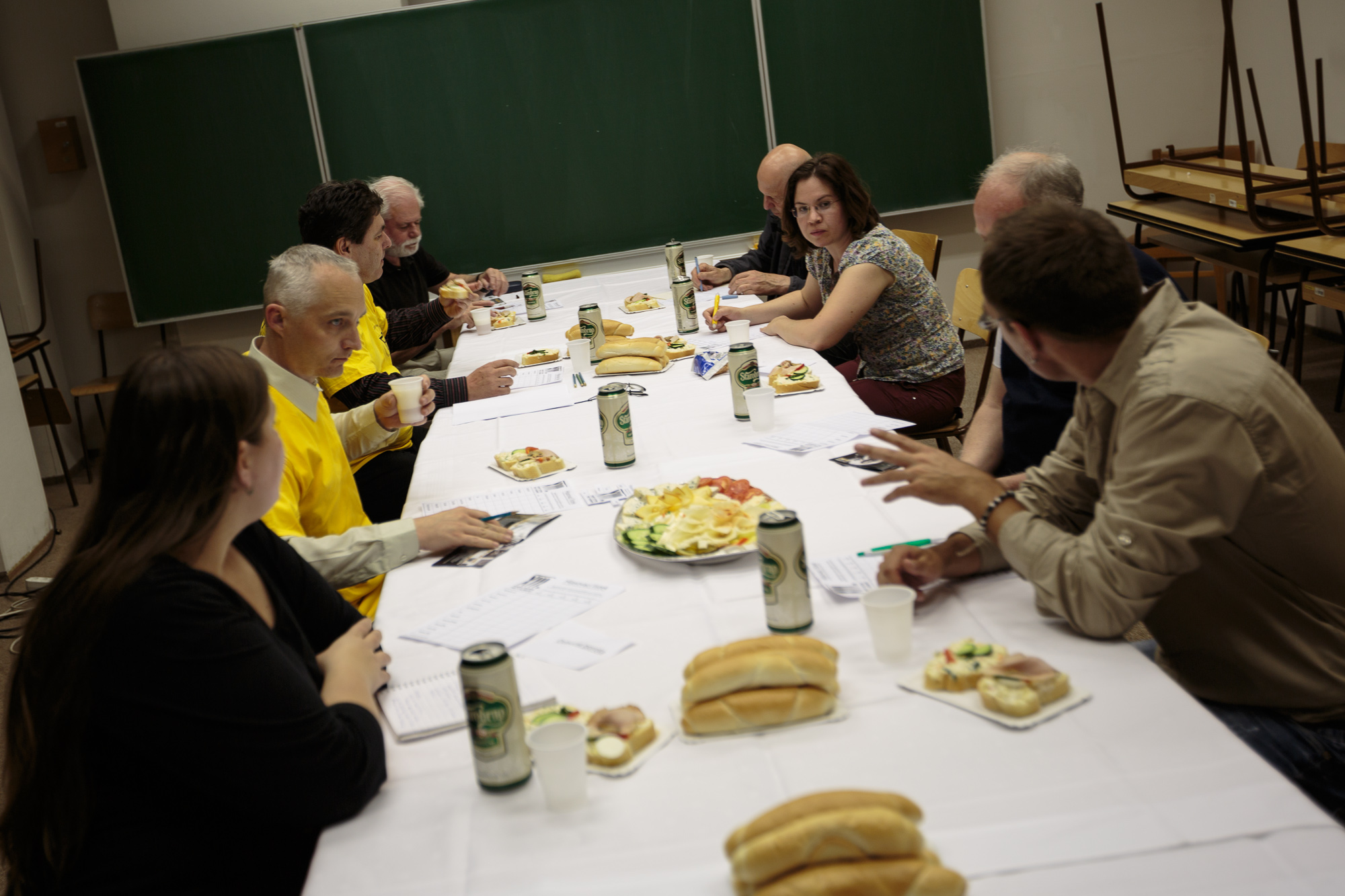 Faculty of Informatics Film Festival, Masaryk University, Brno, Czech RepublicEsperanto: Filmfestivalo de la Fakultato de informadiko, Masaryk-Universitato, Brno, Ĉeĥio